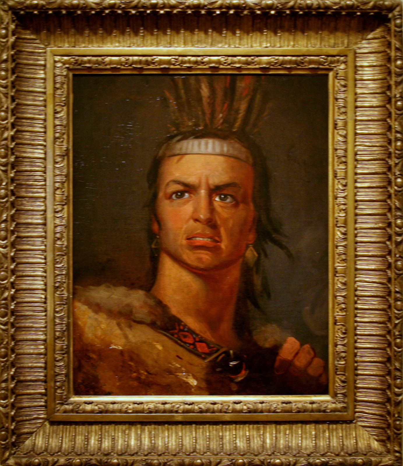 Oil on canvas portrait of Edwin Forrest as "Metamora"; original size without frame 62.2×49.2 cm.